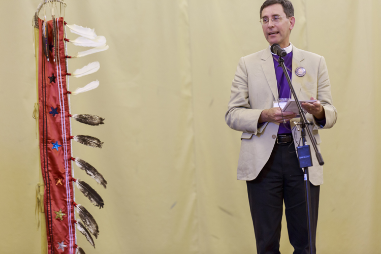 Bishop Stephen Andrews speaking as part of the Shingwauk Gathering at Algoma University in 2012